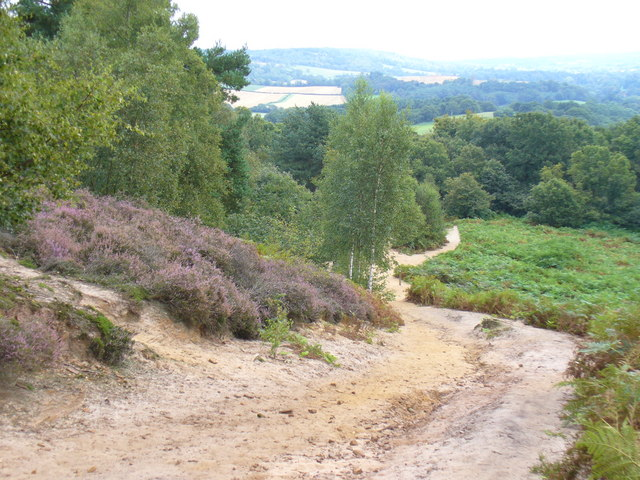 North Downs Way, St Martha's Hill, an anciently volcanic knoll in the north downs, looking west along the lower then equal height escarpment towards the Clandon, Effingham and Horsley Woods above Albury, Shere and Abinger parishes to the right. This line of sight is followed by the Pilgrims' Way also known as the North Downs Way.